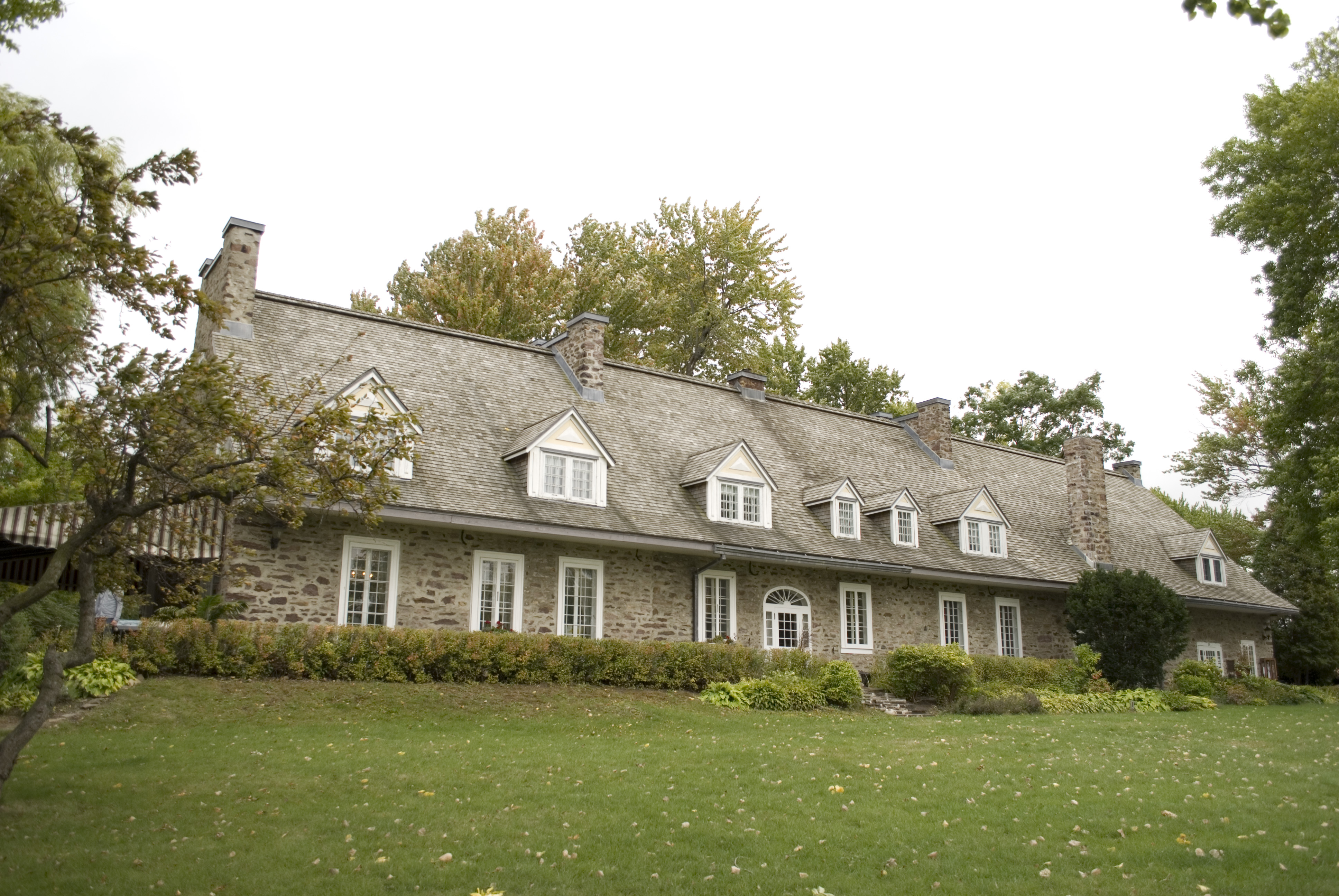 Maison Trestler is vast residential place situated near the river.